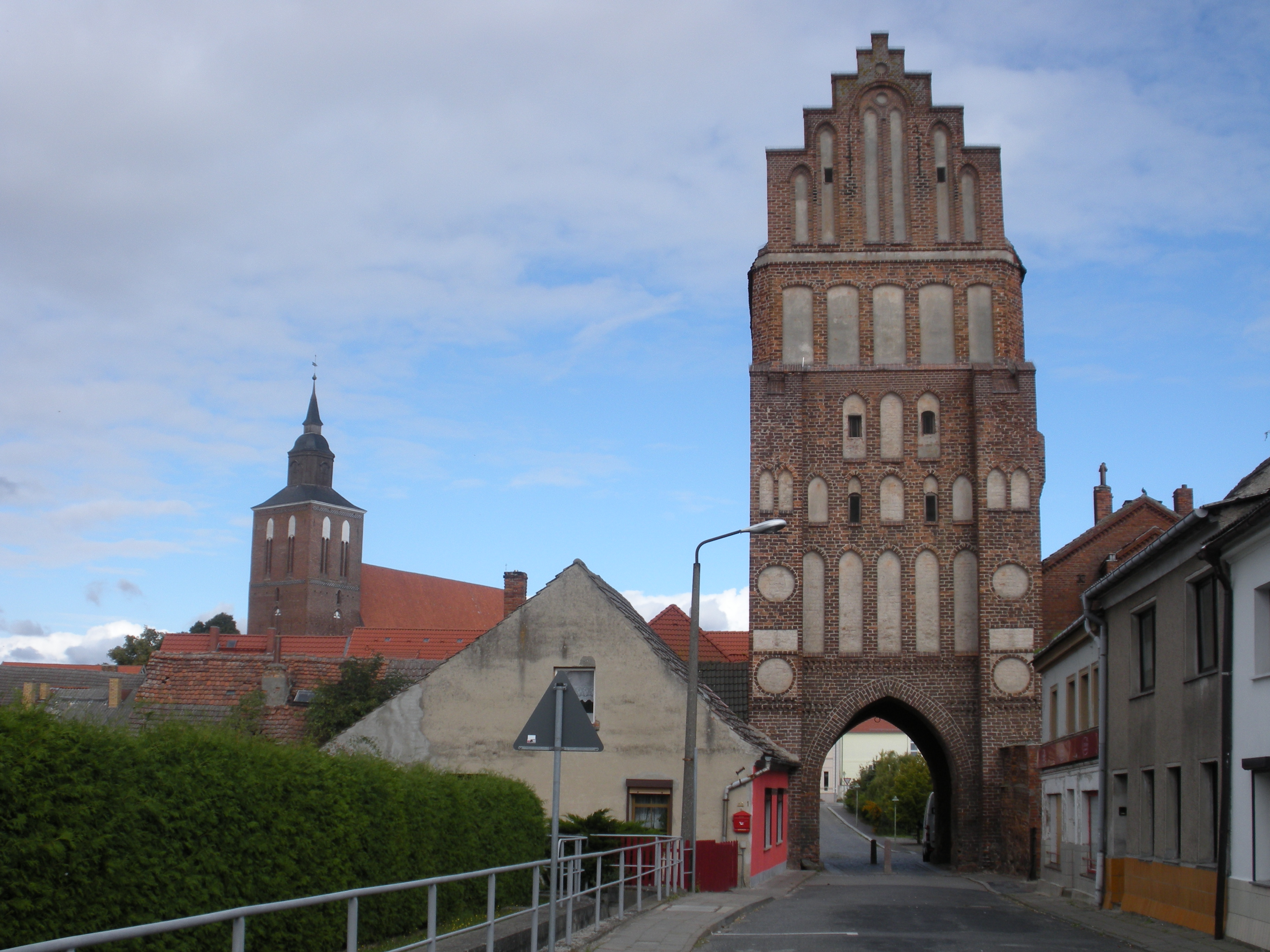 Brandenburger Gate and Protestant Church of St. Petri Altentreptow, Landkreis Demmin